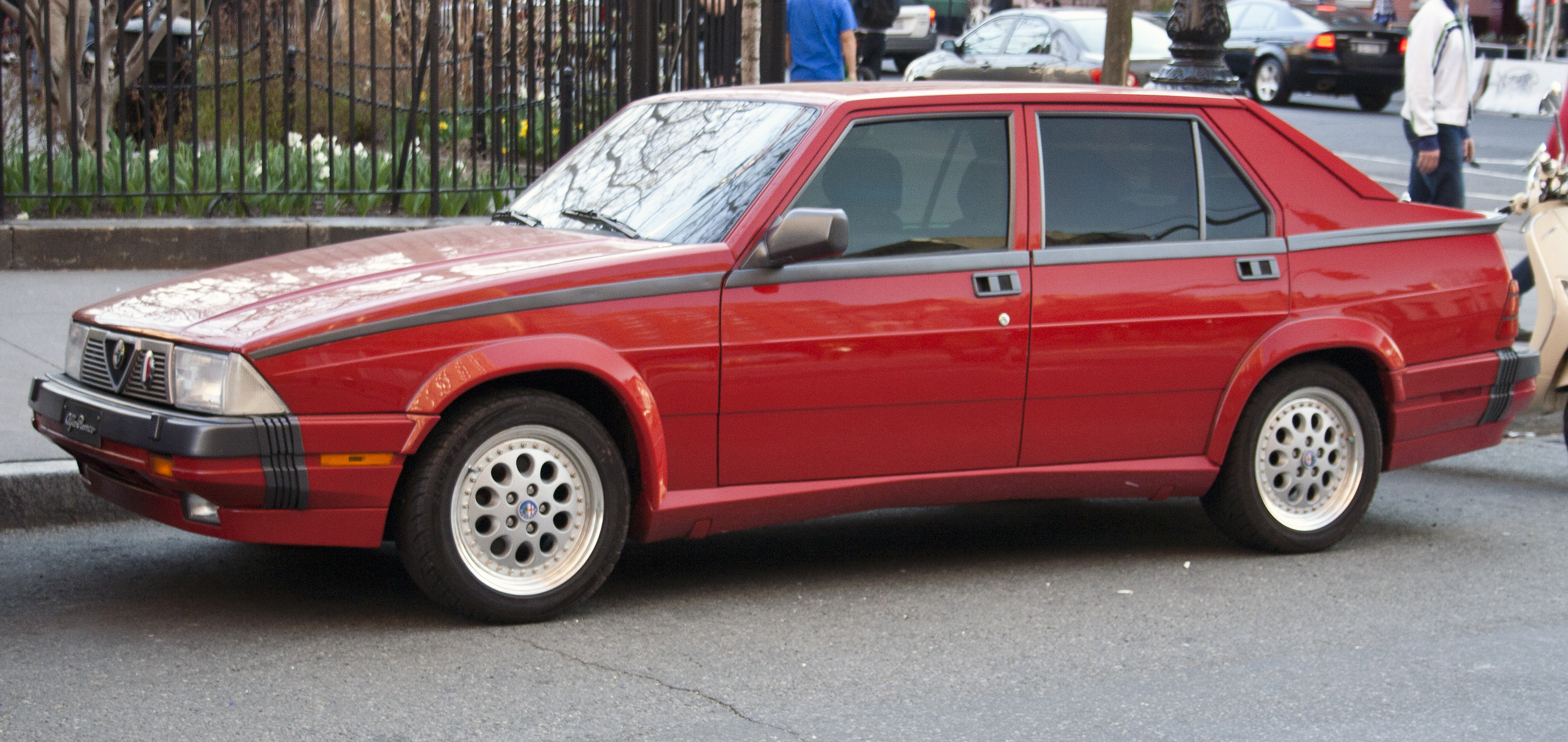 1987 Alfa Romeo Milano Quadrifoglio Verde 3.0 V6, very early car with "H" VIN code and low chassis number. Wheels are non-standard but look fantastic...